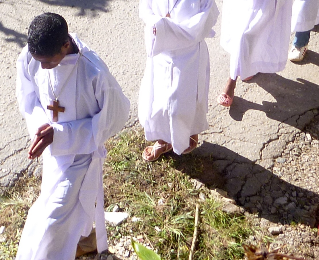 The front of the procession to the church on Palm Sunday, Maubisse, East Timor